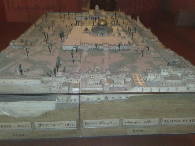 The Haram-es-Sharif at Jerusalem in 1879. The model is made by Conrad Schick for a World Exhibition in Austria. Schick was the city architect in Jerusalem during the ruling of the Turkish governor. The model can be seen at the Biblical Museum in Amsterdam